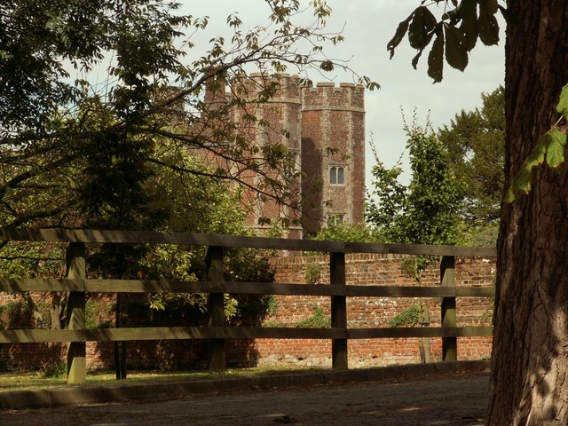 A view of Kirtling Tower Kirtling Tower stands on private land but this is the view from the road. It is actually the gatehouse to a mansion that belonged to the North family. Apart from the gatehouse, which was built in 1530, most of the rest of the mansion was pulled down in 1801. It stands close to Kirtling parish church.